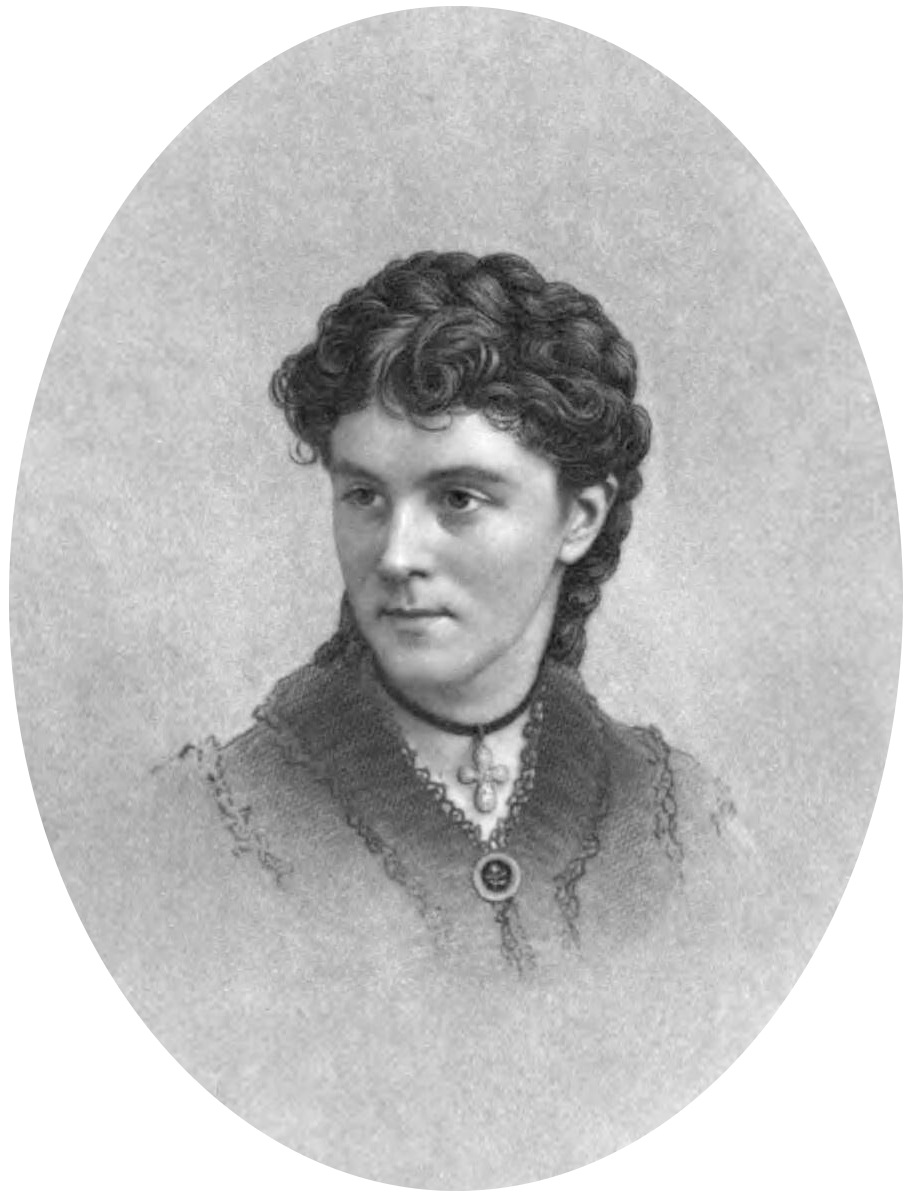 Emily Sartain (1841-1927)